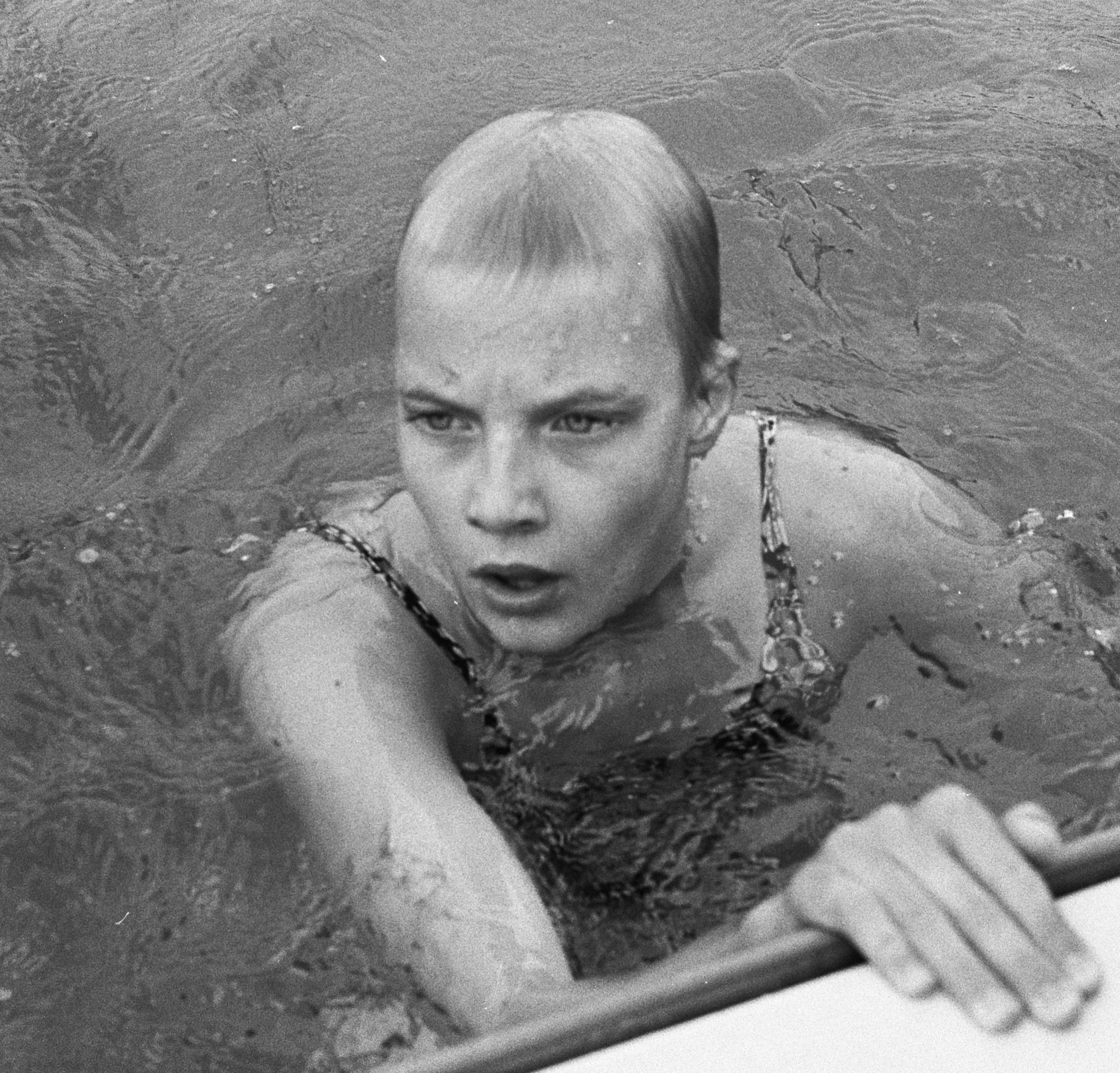 José Damen at national championships